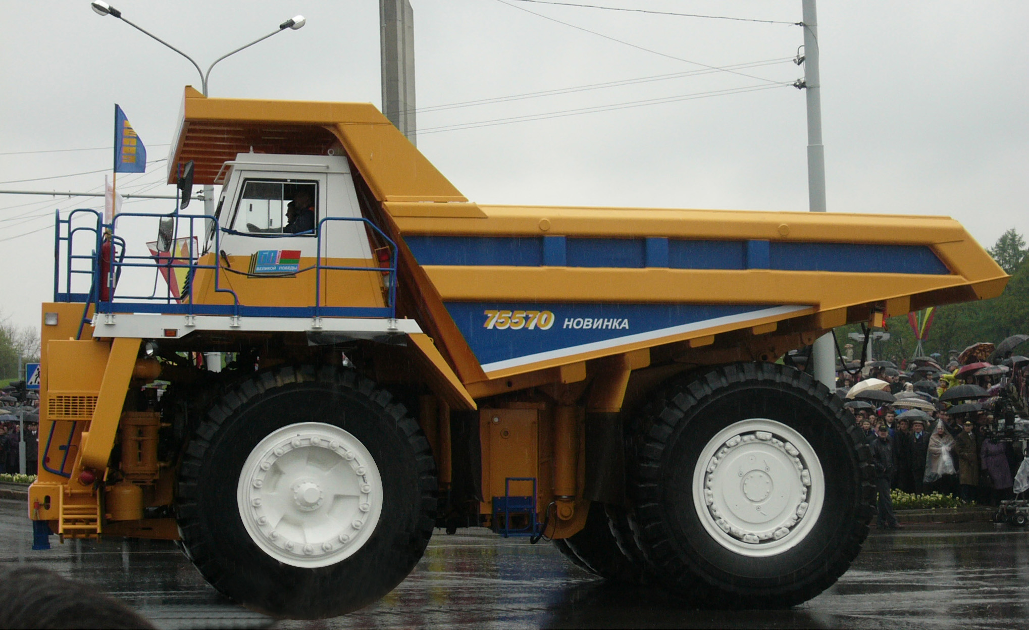 Belaz 75570 on Victory Day parade in Minsk